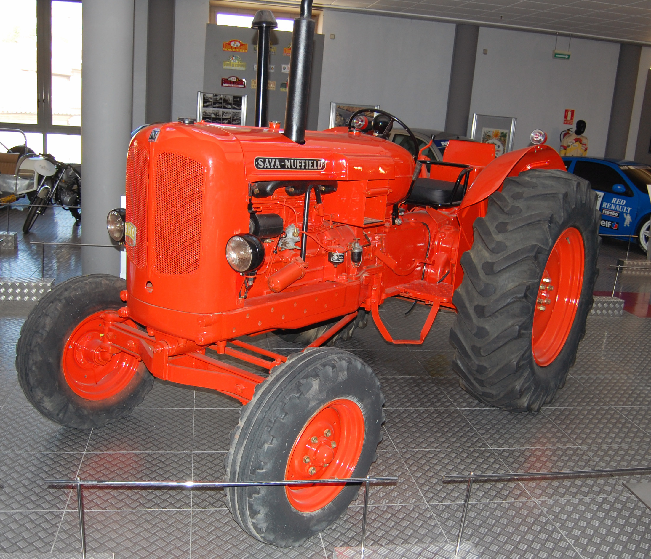 Tractor SAVA - NUFFIELD 10-60 in Museo Historico del Automóvil de Salamanca